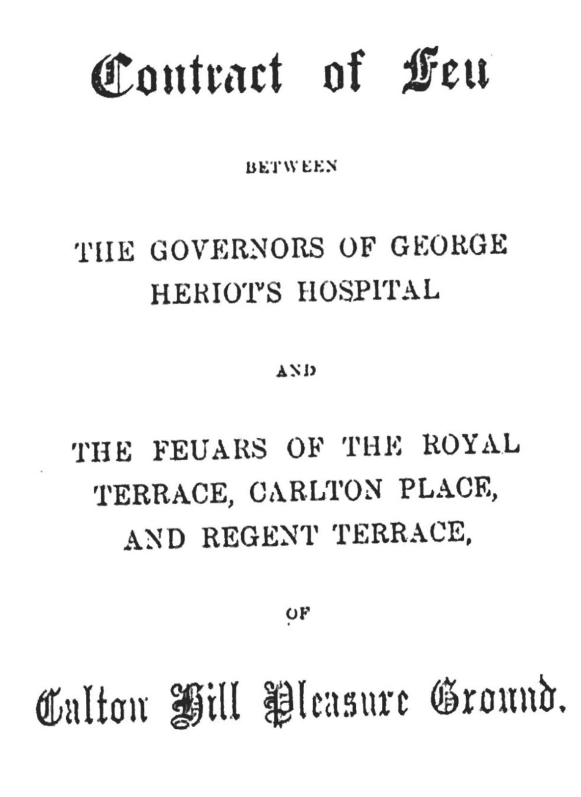 Title page for the Contract of Feu of 1836 for Calton Hill Pleasure Grounds, now Regent, Royal and Carlton Terrace Gardens